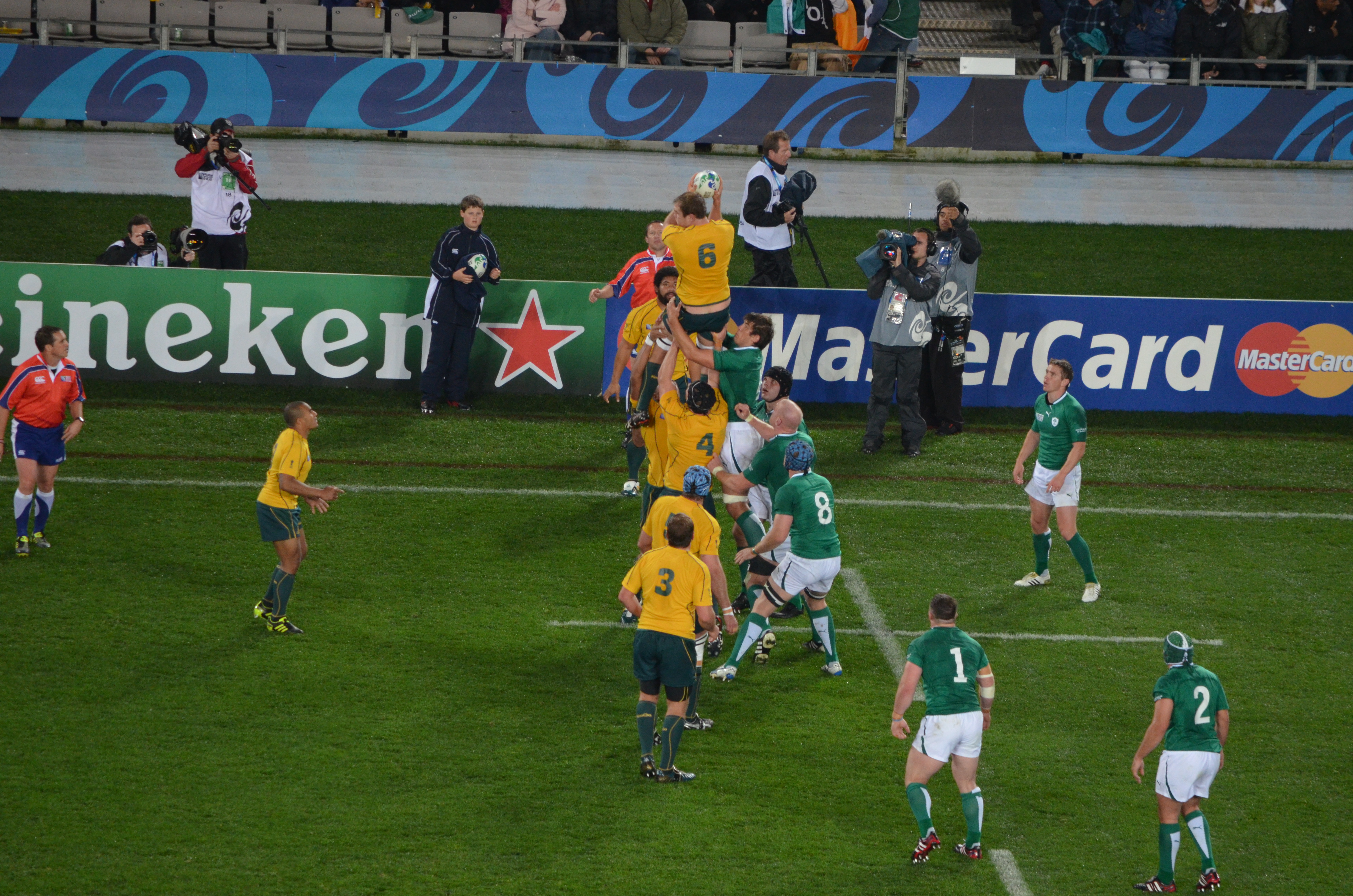 Match between Australia and Ireland during 2011 Rugby World Cup in New Zealand.